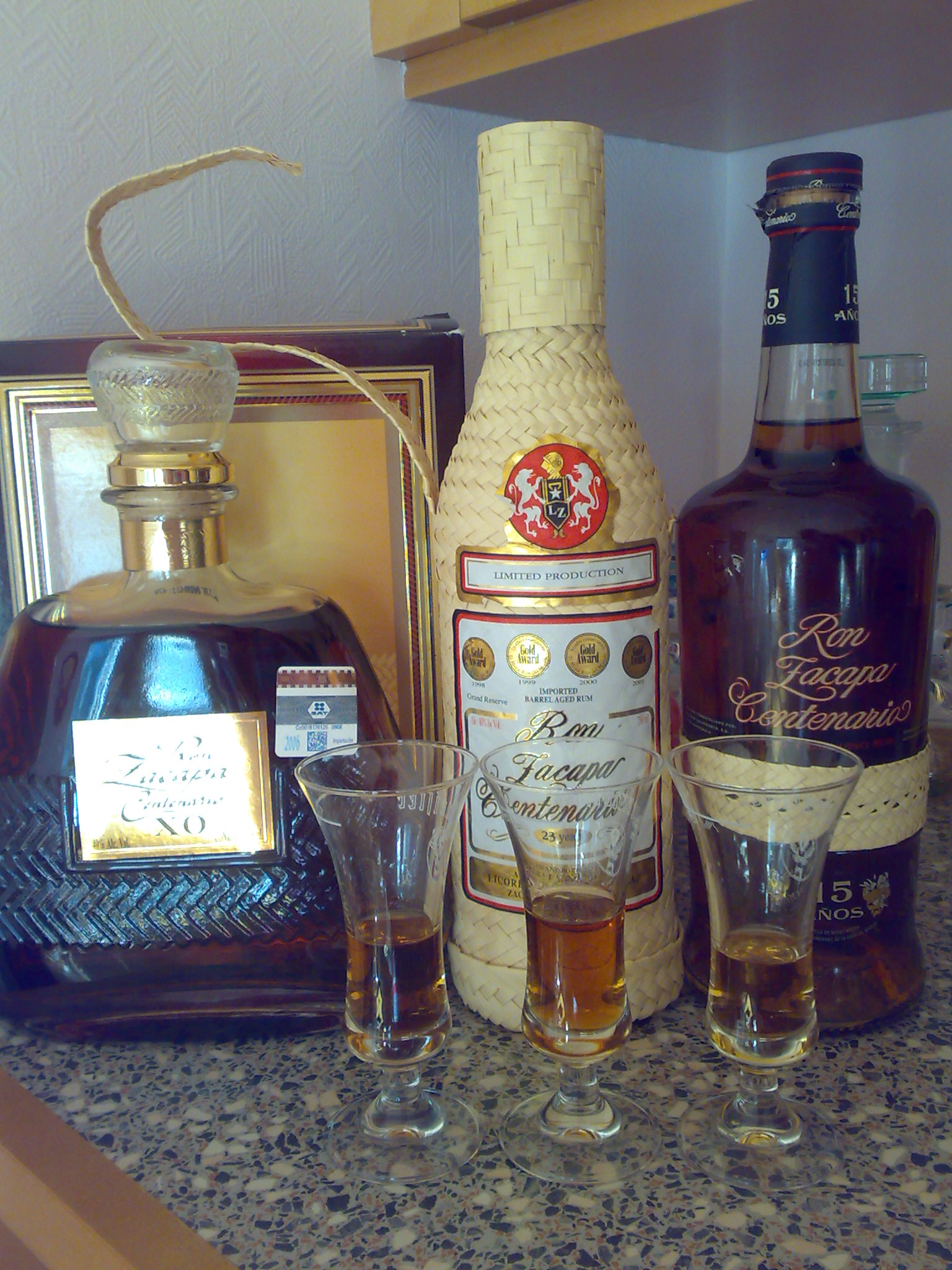 3 bottles of Zacapa rum. From left to the right, 25 years old XO, 23 years old and 15 years old.